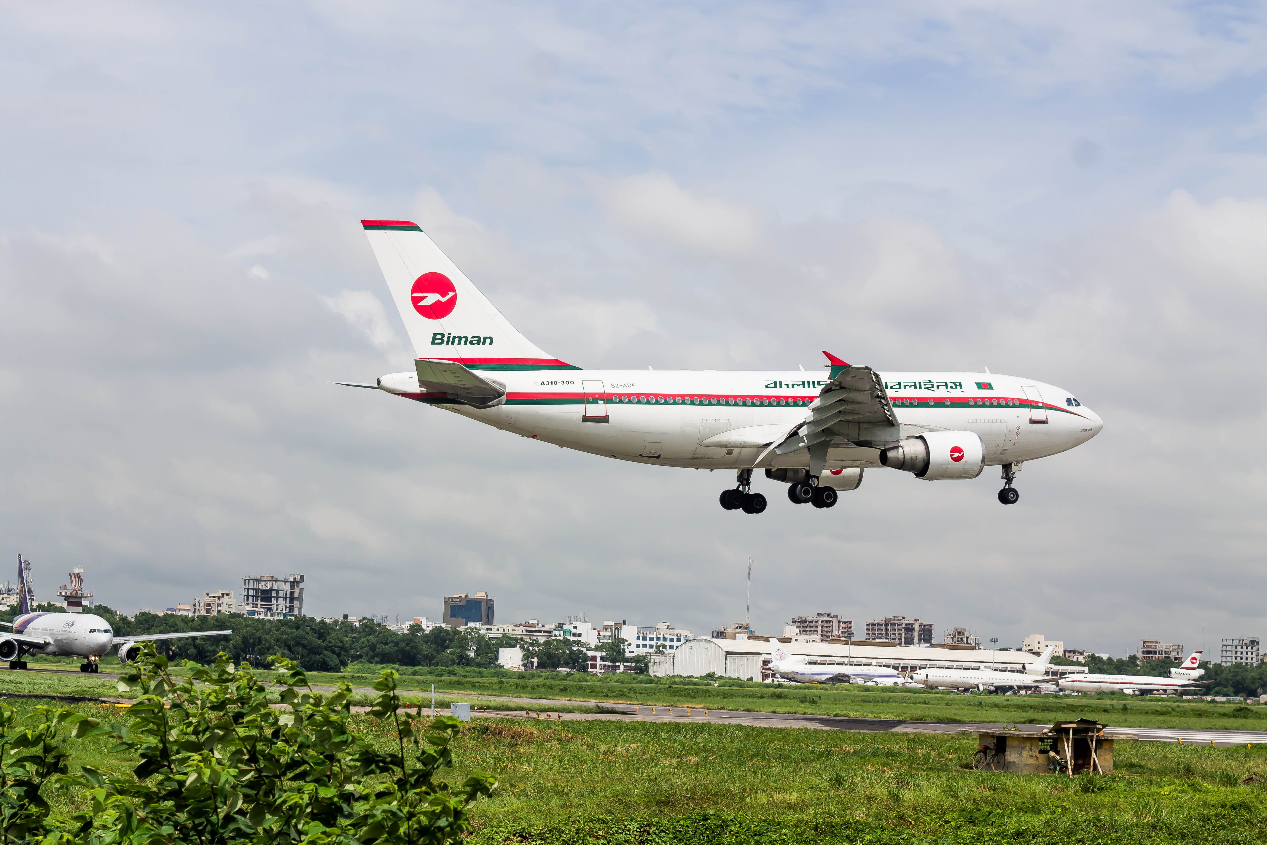 Shahjalal International Airport, Dhaka, Bangladesh Photo: Jubair Bin Iqbal